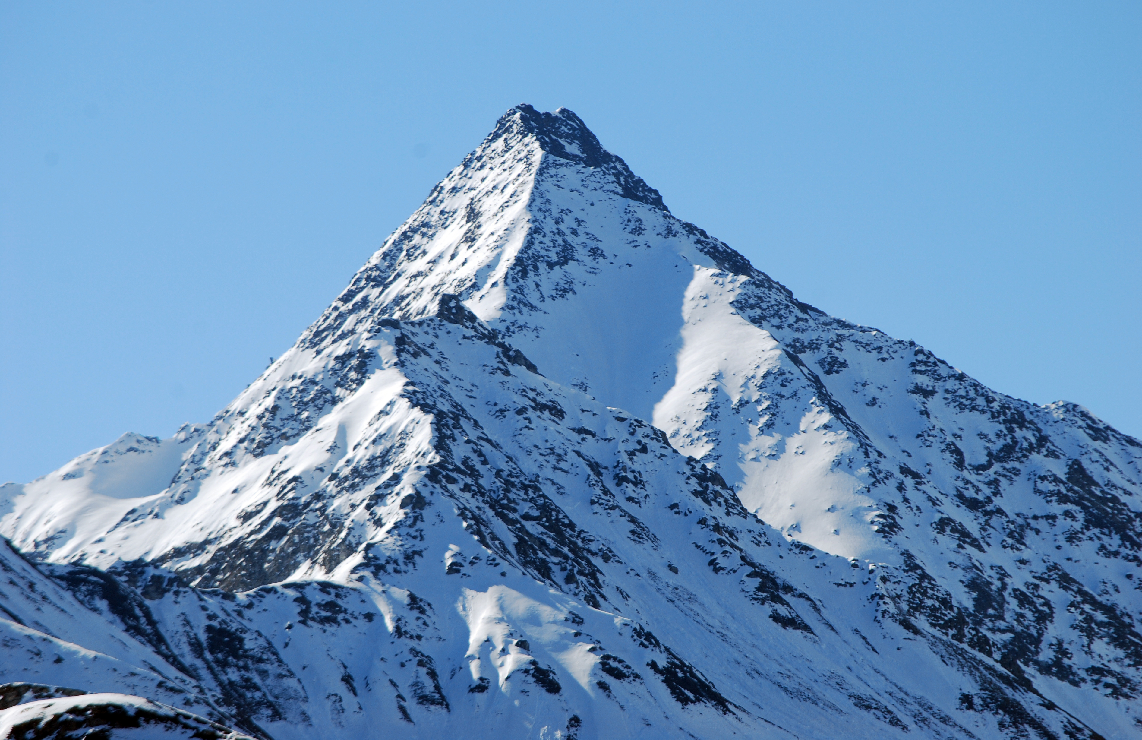 Lasörling from N